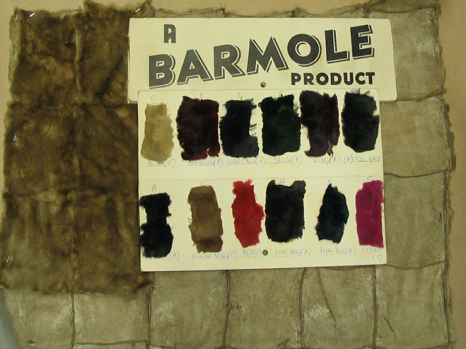 ‚A Barmole Product‘. Mole skins.